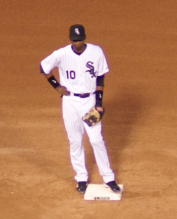 White Sox Second Baseman Alexi Ramirez stands at his position in a game on July 1, 2008.